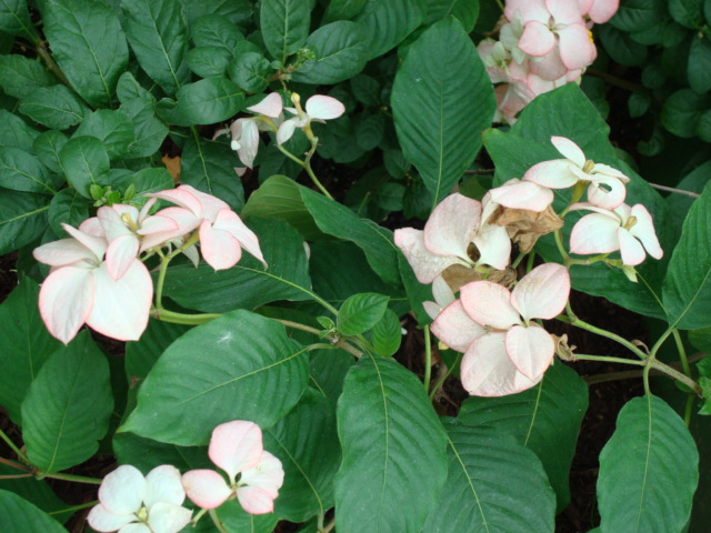 Picture of Mussaenda philippica